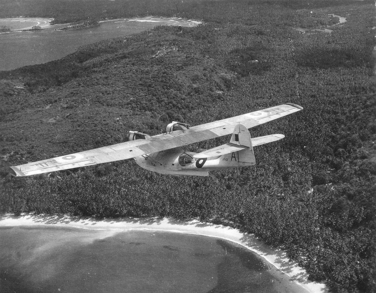 Aircraft being flown on a test flight at Royal Air Force Station RAF Koggala, Ceylon (now Sri Lanka)